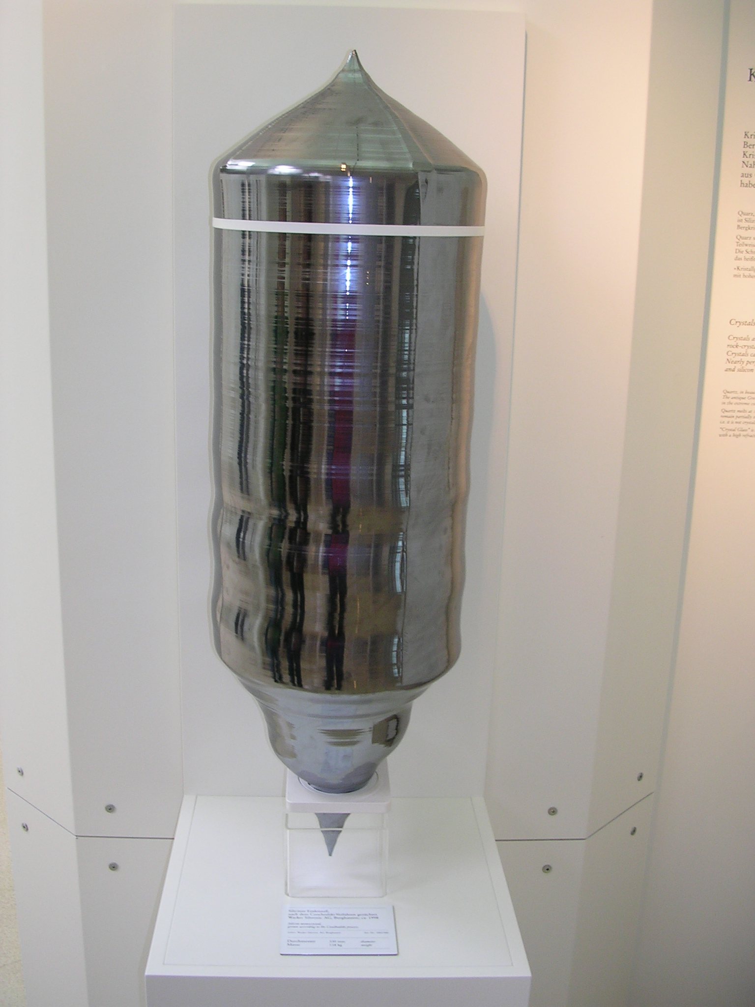 Single crystal of silicon producted with the Czochralski process. Deutsches museum, Munich, 2008.